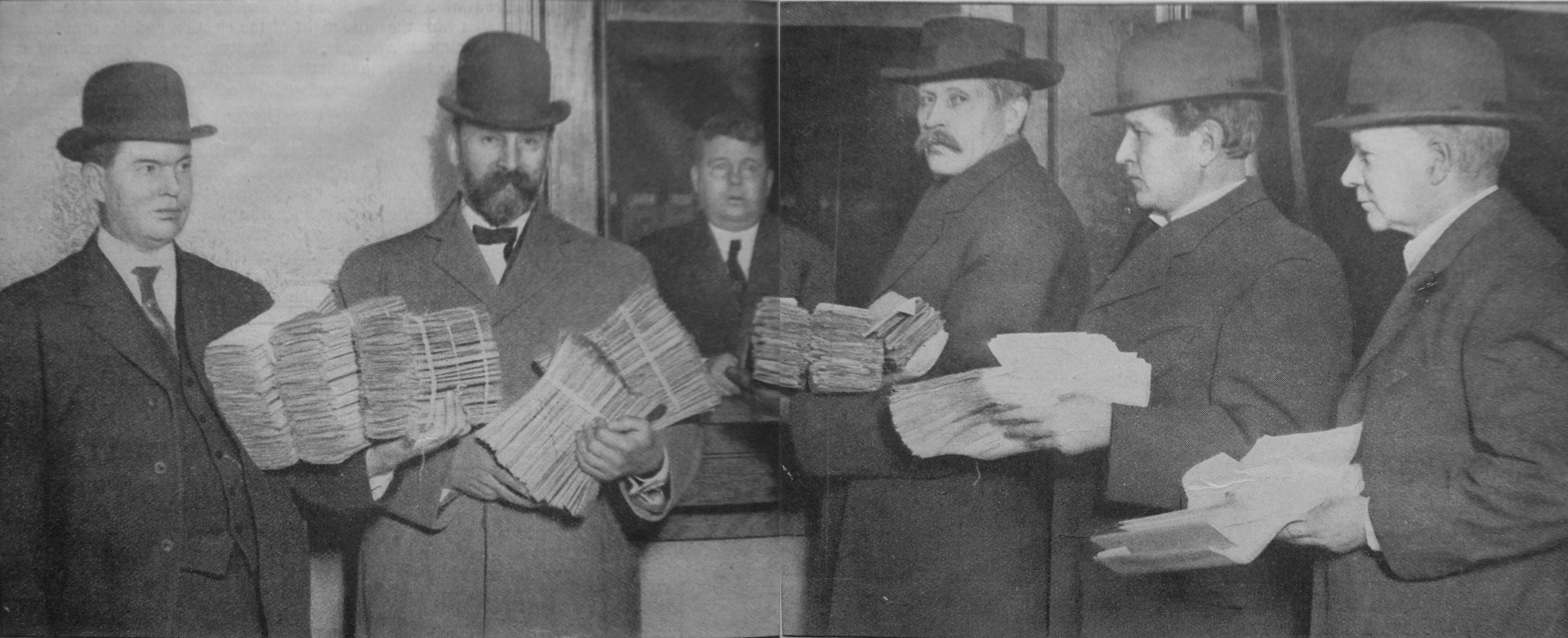 Presenting recall petitions against Seattle, Washington mayor Hiram Gill. The recall election took place February 1911.